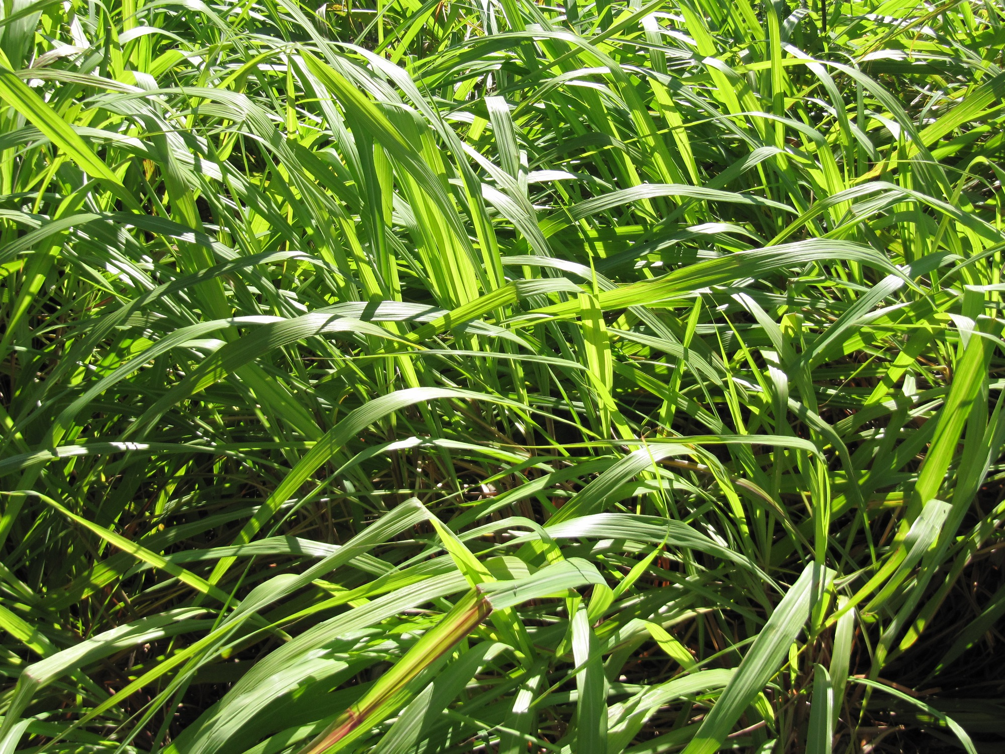 Bush of Java citronella (Cymbopogon winterianus) close to the Itaipu power station, Brazil.